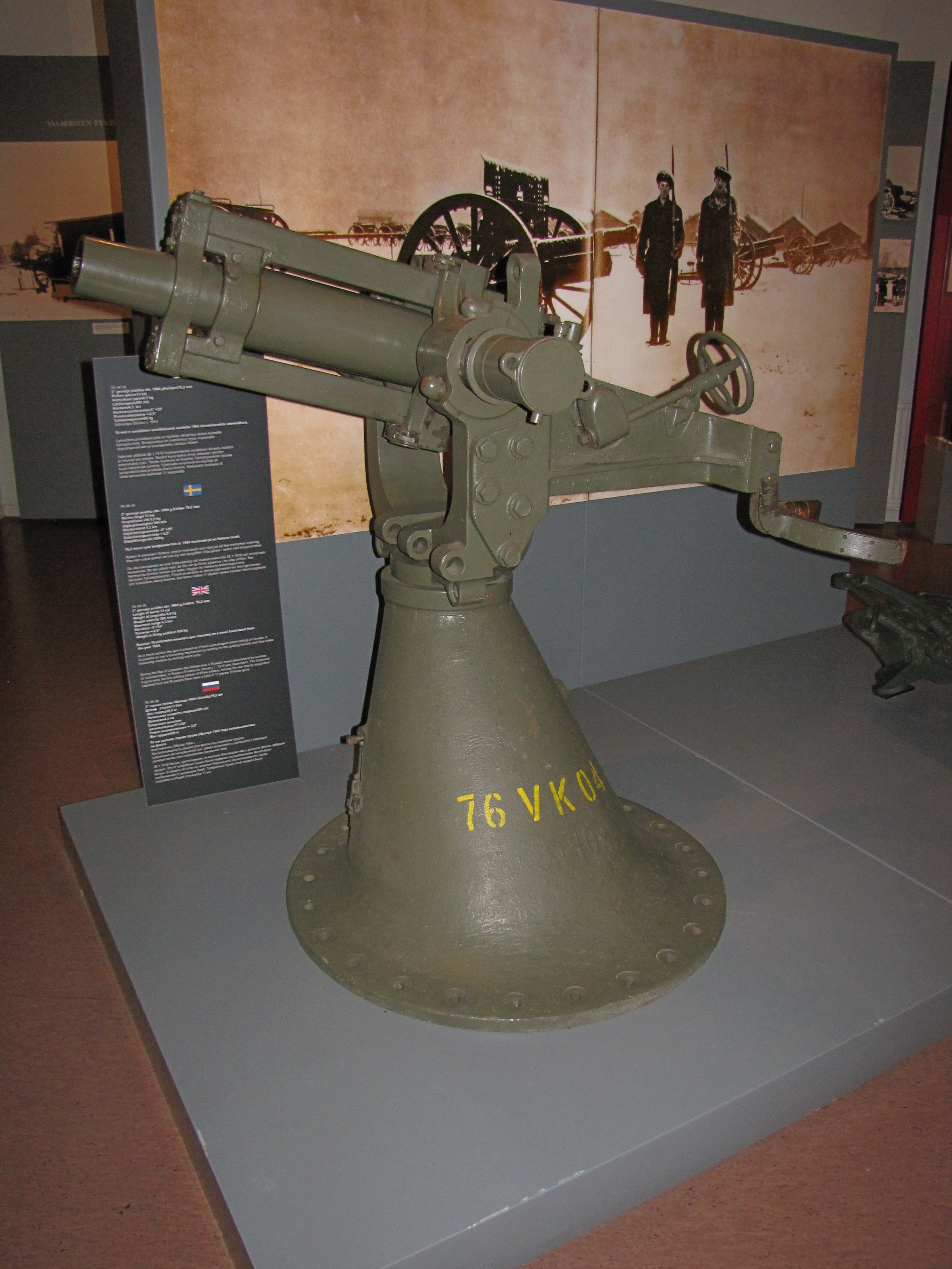 Imperial Russian 76.2 mm model 1904 Obukhov mountain gun on static column mount. Finnish designation 76 VK 04, photographed in Hämeenlinna artillery museum.